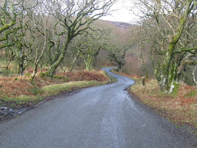 B842 east road, Kintyre. Winding through the woodland Just south of Allt Romain.